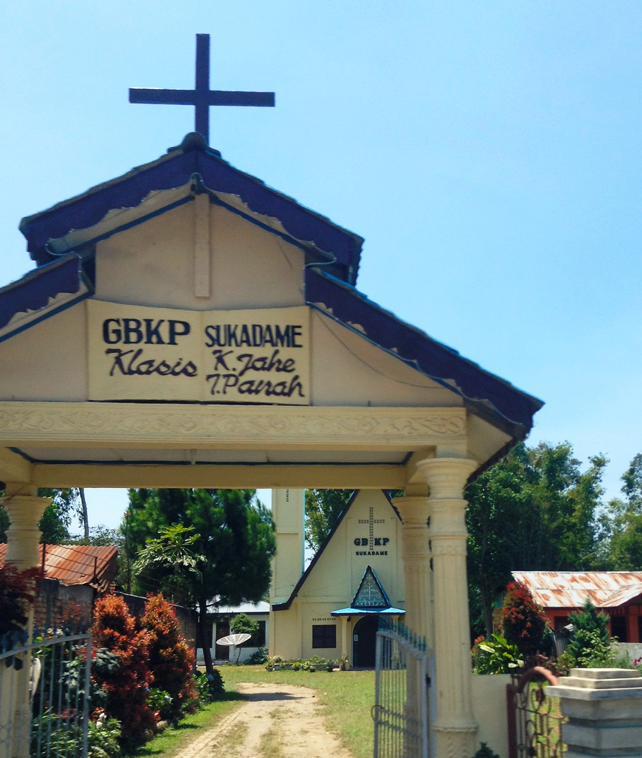 GBKP Rg. Sukadame, Klasis Kabanjahe Tigapanah, Church in Sukadame, Tigapanah, Karo